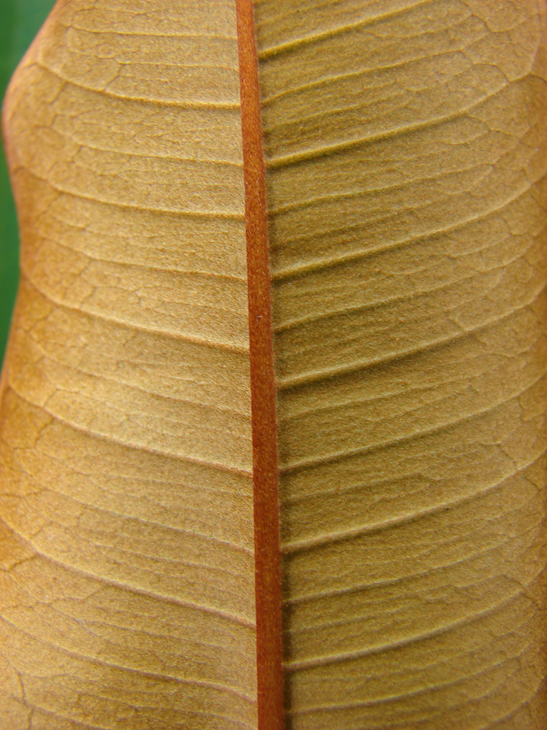 Chrysophyllum cainito (Haitian star apple leaf). Location: Maui, Kula Ace Hardware and Nursery